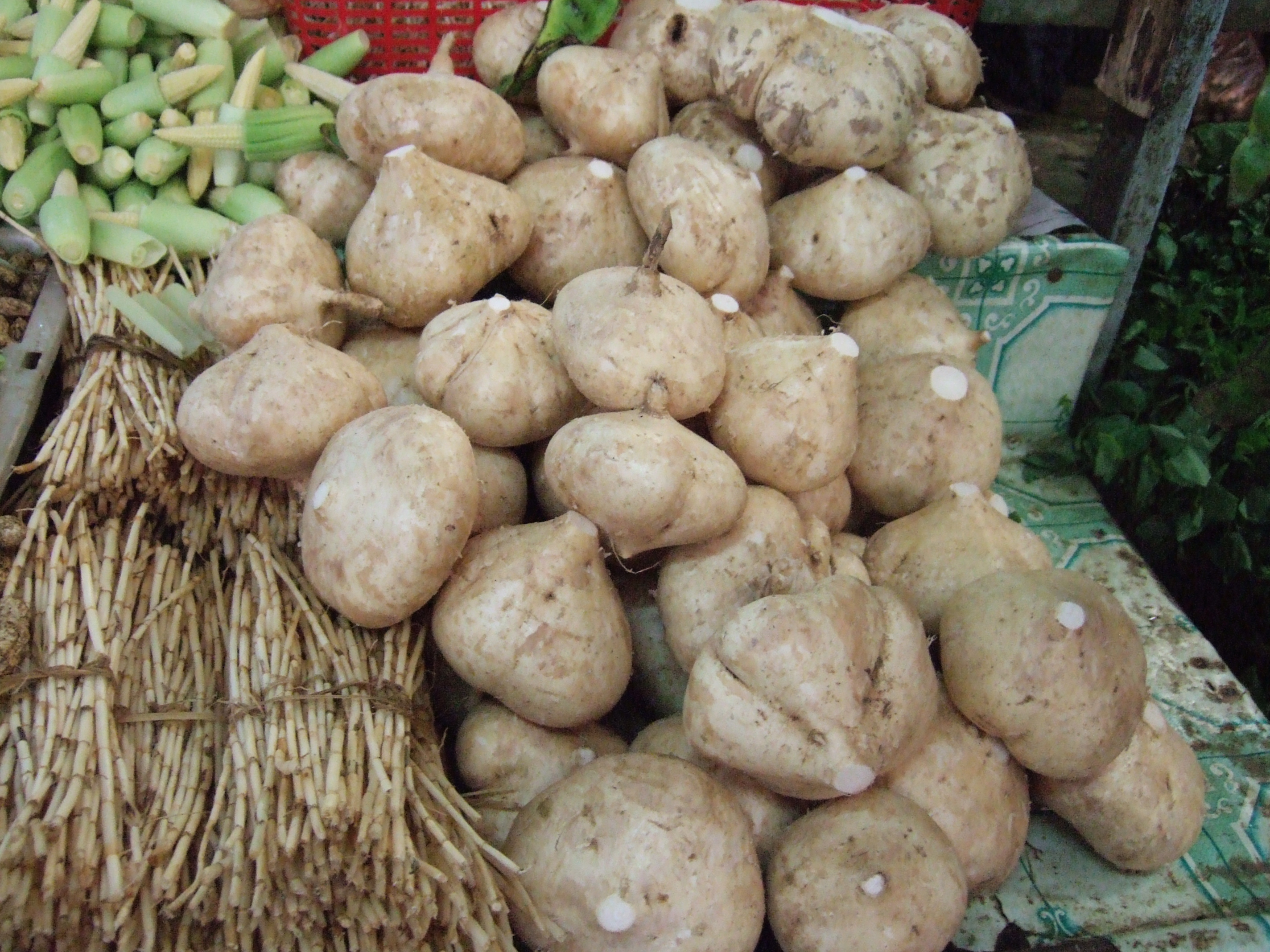 Pachyrhizus erosus (Jicama, yambean)